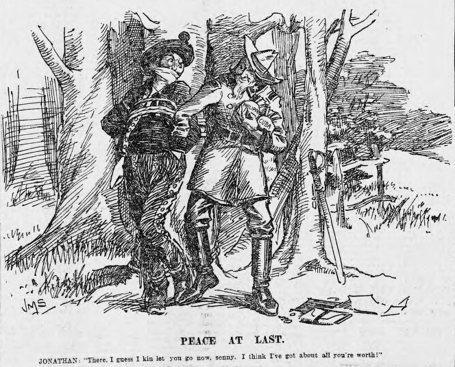 Political cartoon by JM Staniforth: Brother Jonathan picks the pocket of a restrained Spain. Commentary on the Treaty of Paris 1898.